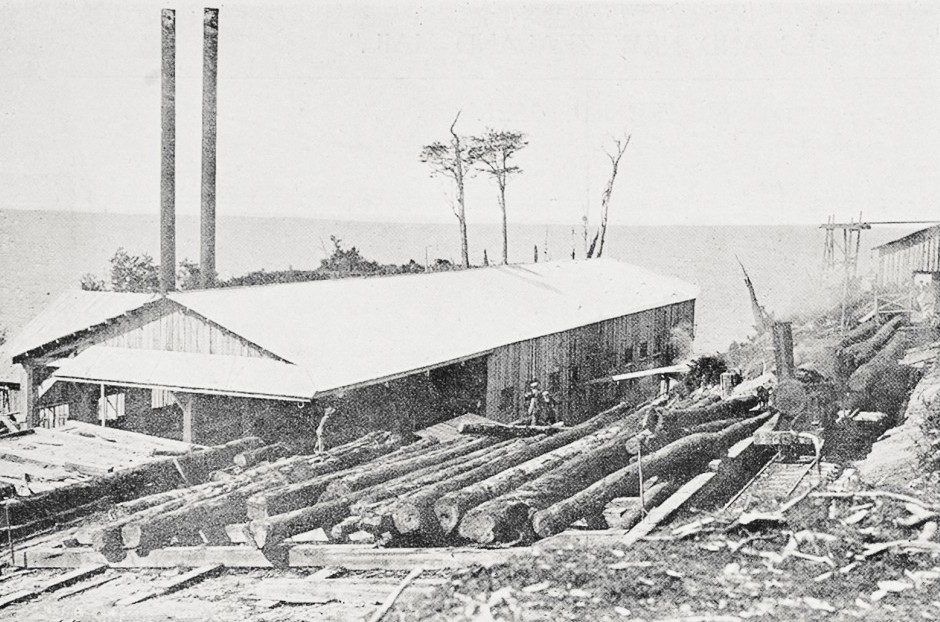 The mill mostly milled rimu, brought along the 14km tramway